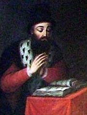 Retrato anónimo de don Juan Téllez Girón, IV Conde de Ureña, en el retablo de la capilla de la antigua universidad de Osuna, de la que fue fundador